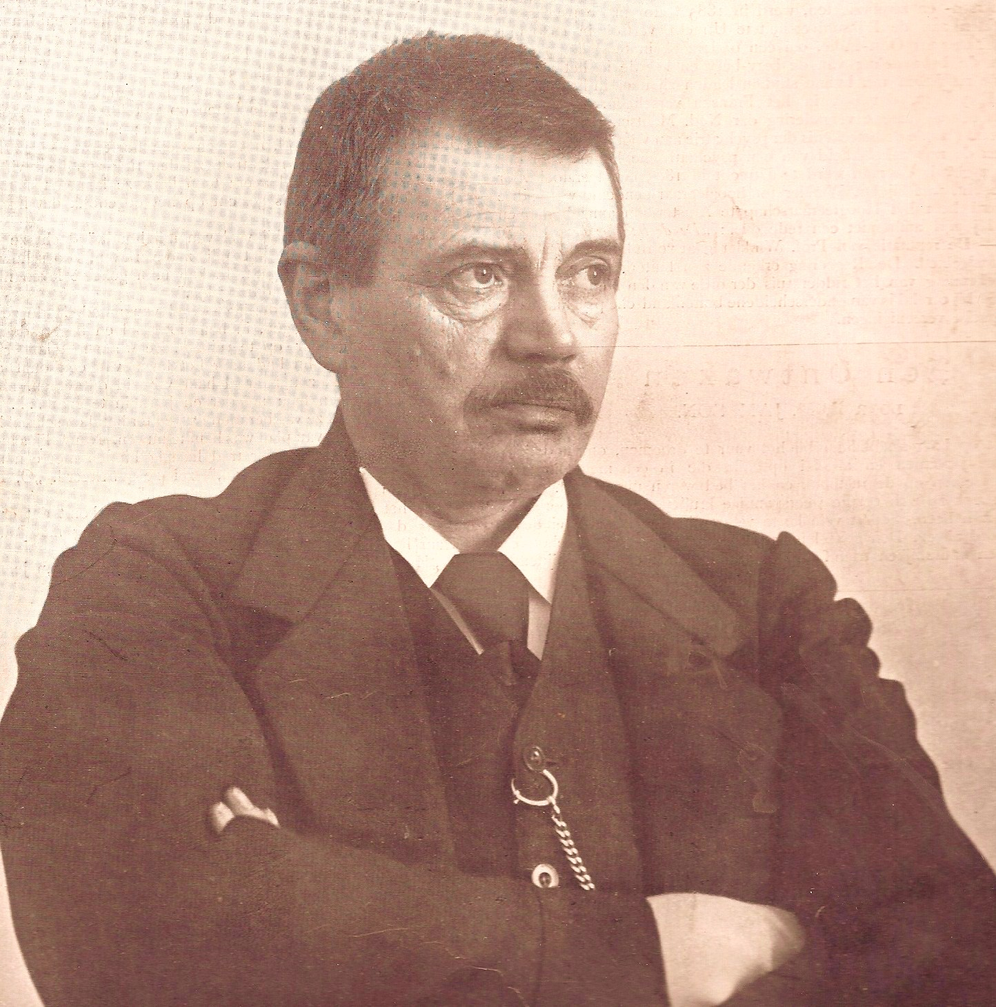 C. Winkel